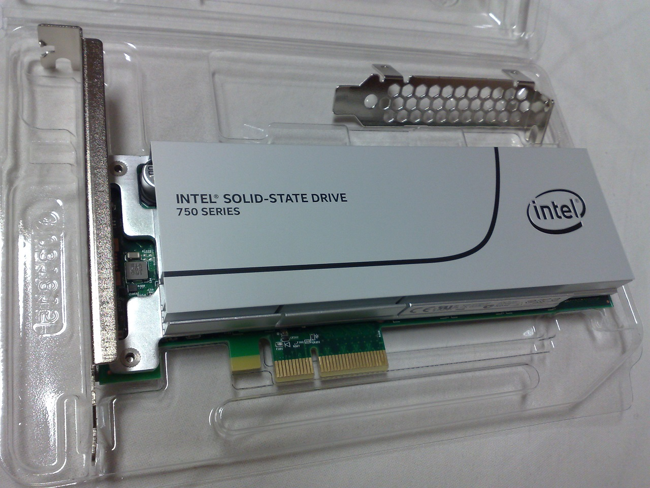 Top view of a 400 GB add-in card model of the Intel SSD 750 series, which is a PCI Express 3.0 ×4 expansion card using NVM Express as the logical device interface and MLC flash as the storage media (p/n: SSDPEDMW400G4R5)